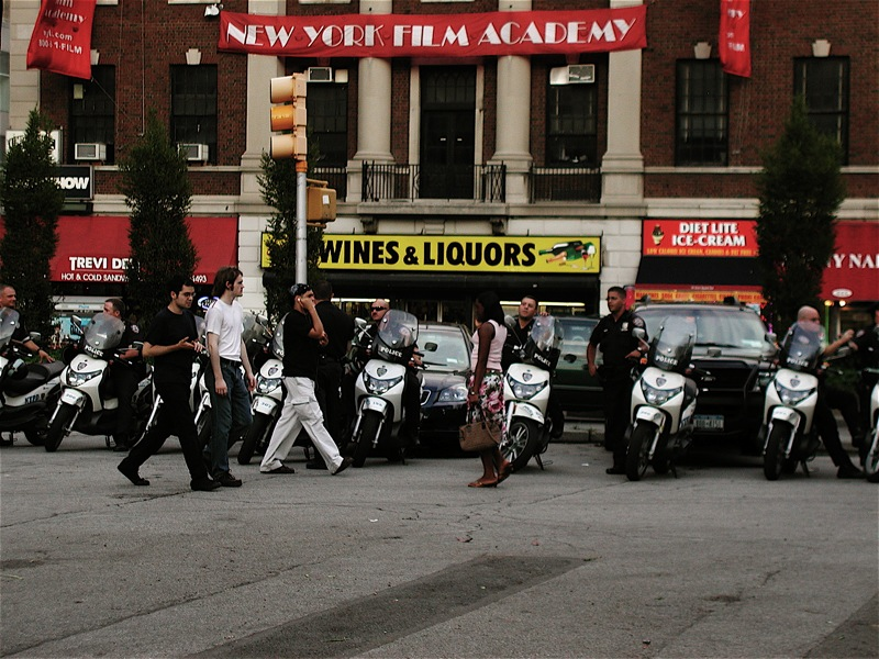 rolling up their sleeves and cleaning up this mean city.